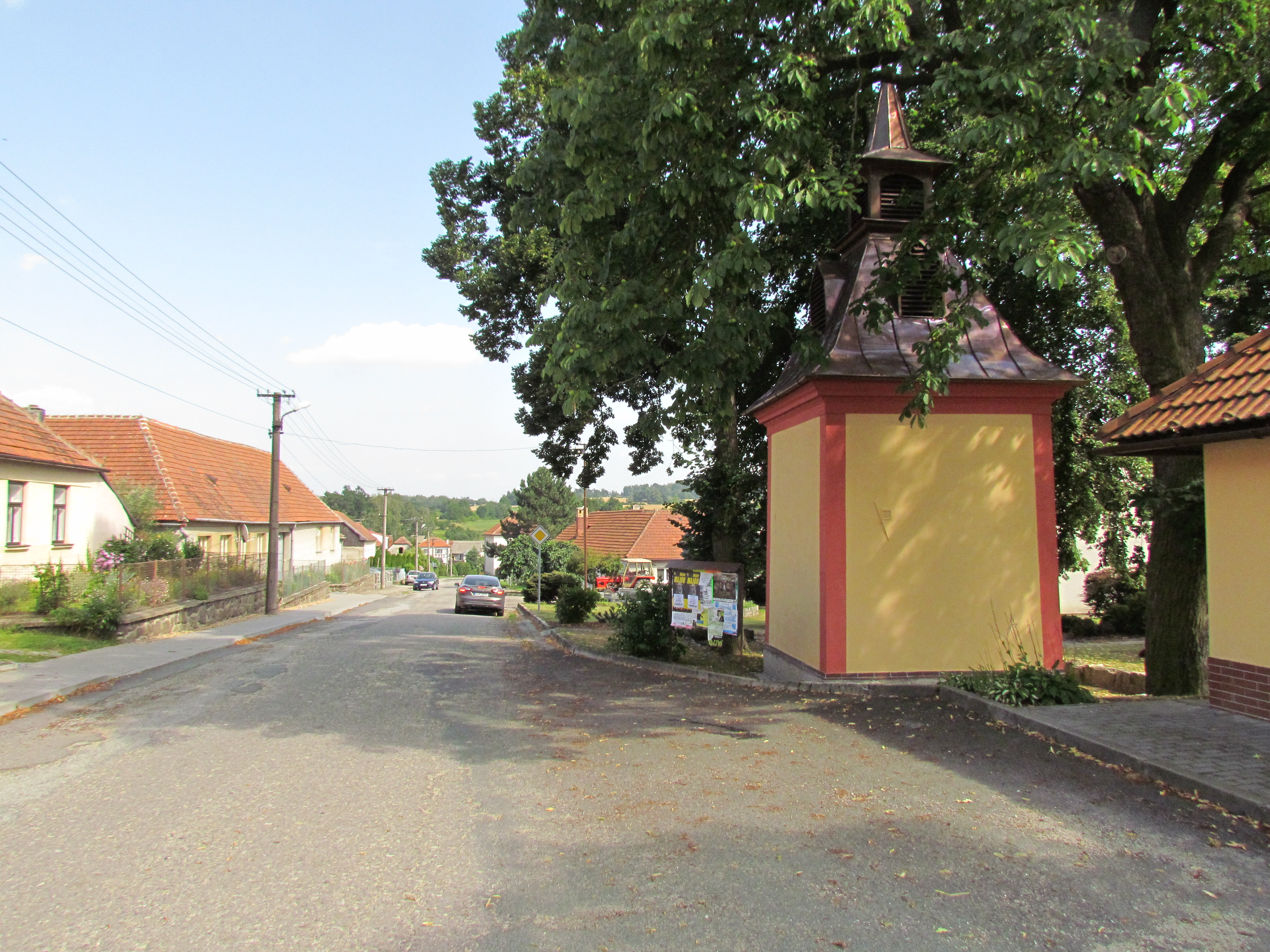 Center with chapel of Saint Mary in Horní Heřmanice, Třebíč District.